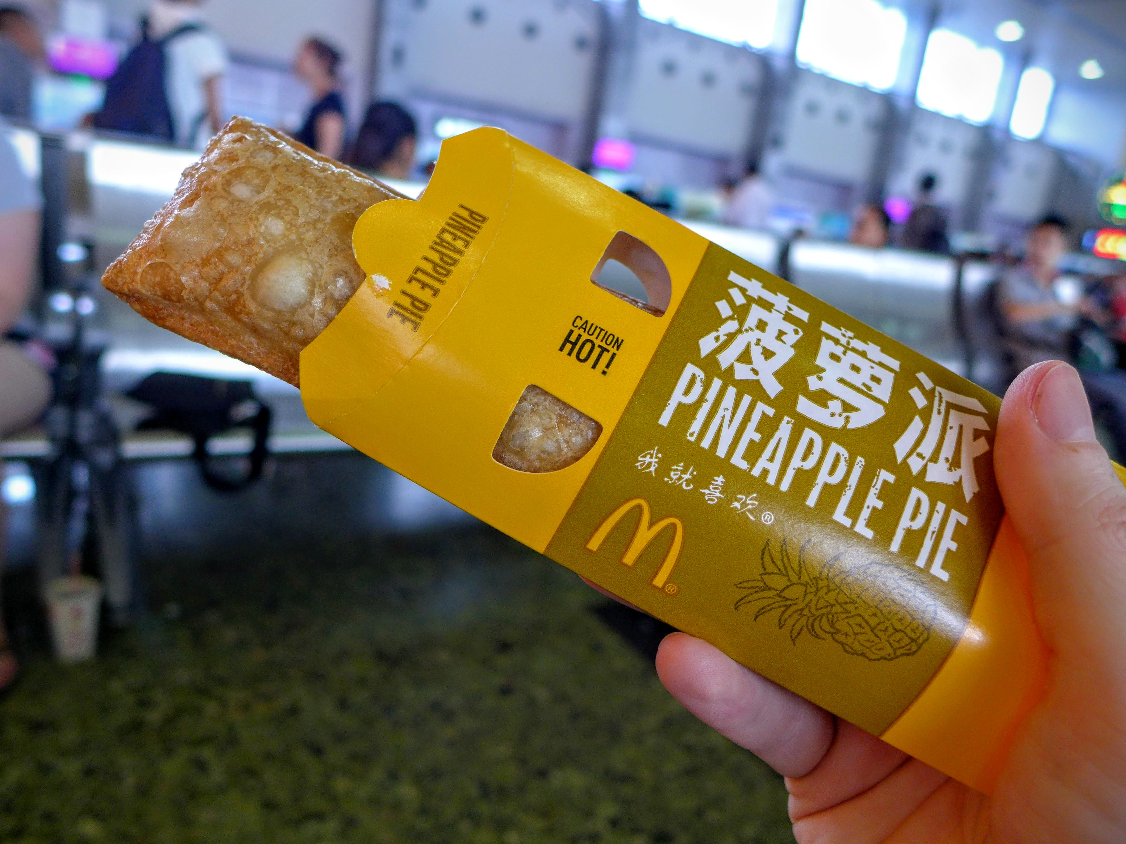 Fried pineapple pie from McDonalds, China. 2013